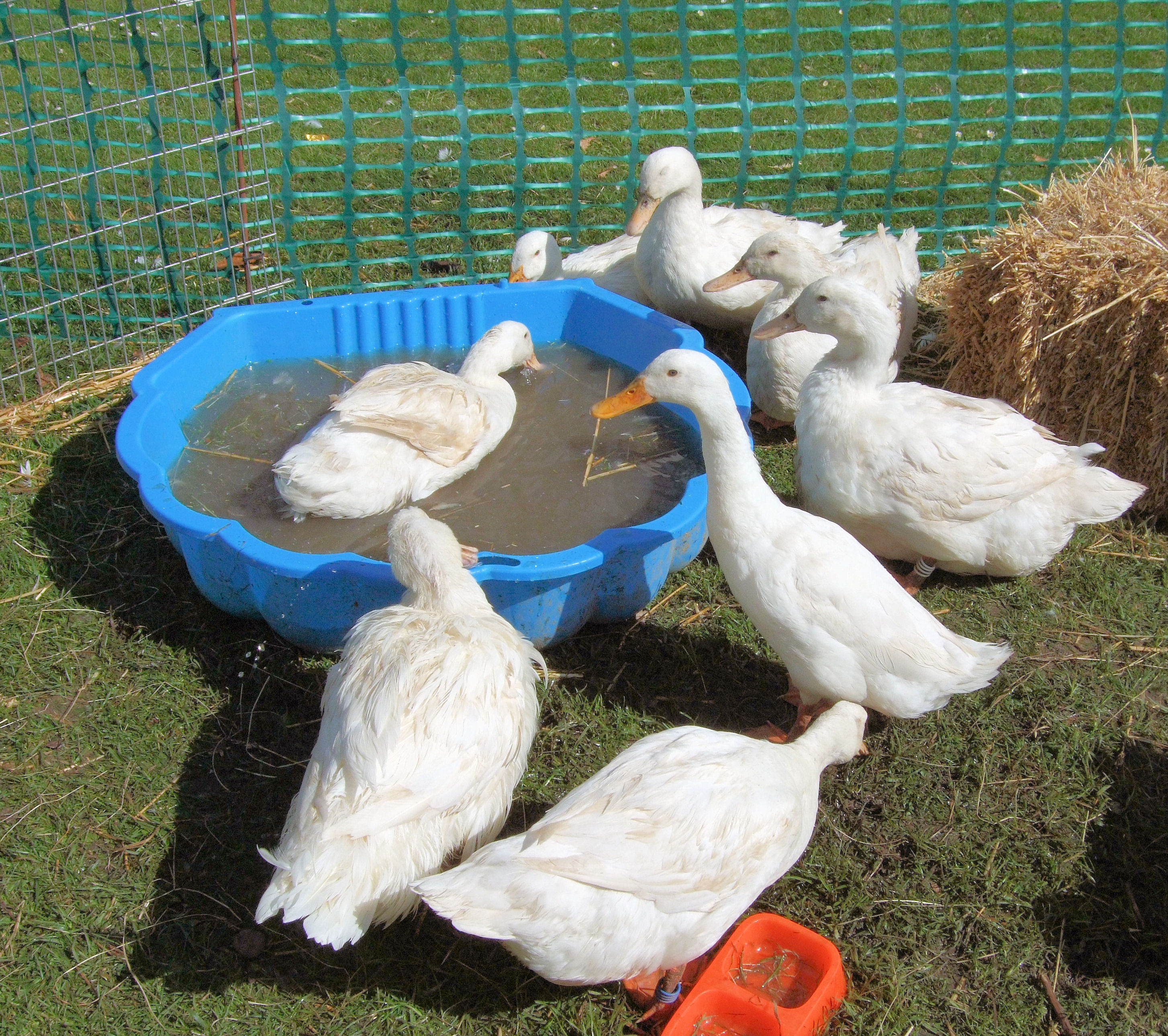 Part of Miller's Ark Animals Show, Kew Gardens, April 2008.